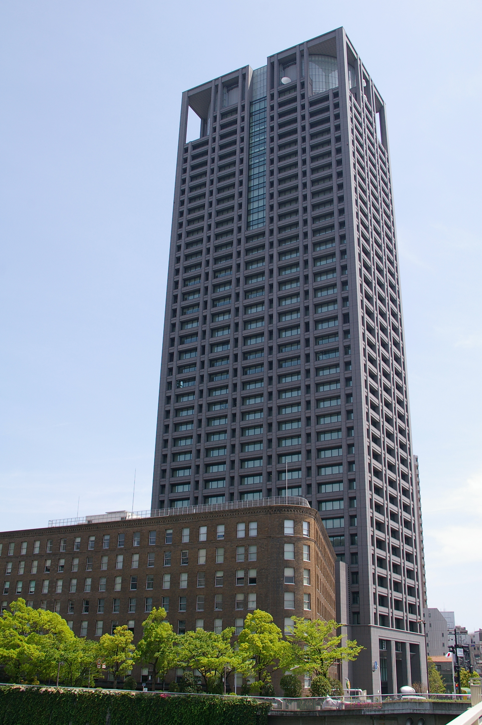 Photograph of the KEPCO Building, headquarters of Kansai Electric Power Company, in Kita-ku, Osaka, Osaka Prefecture, Japan.